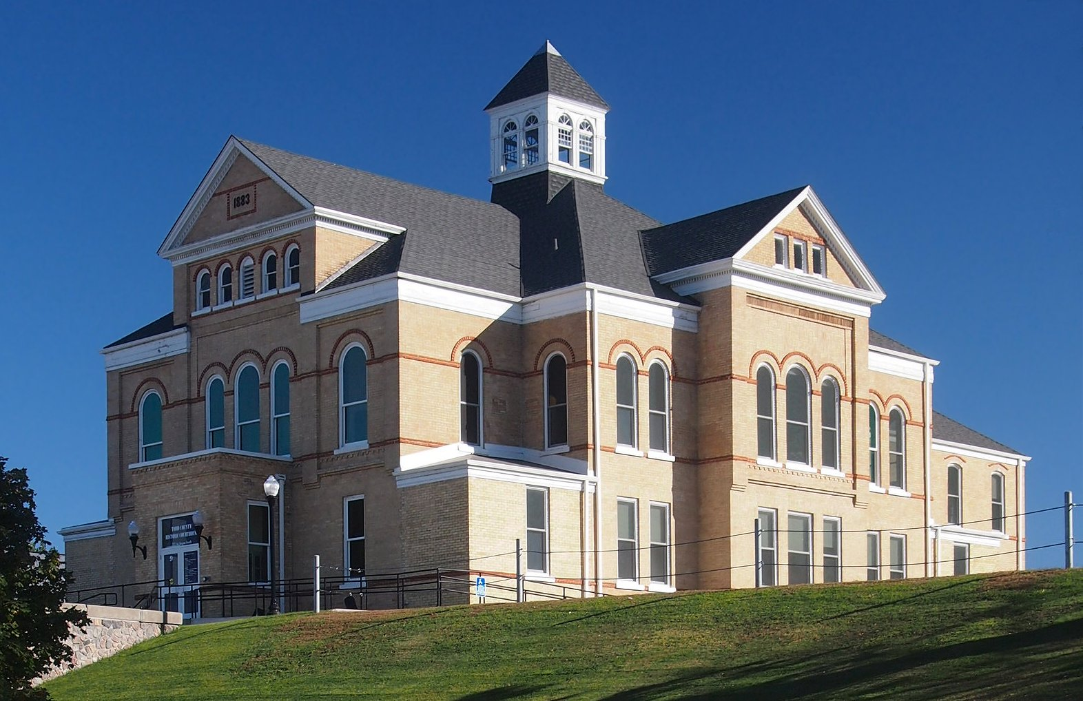 Todd County Courthouse, 215 1st Ave S, Long Prairie, Minnesota, USA. Viewed from the northwest.